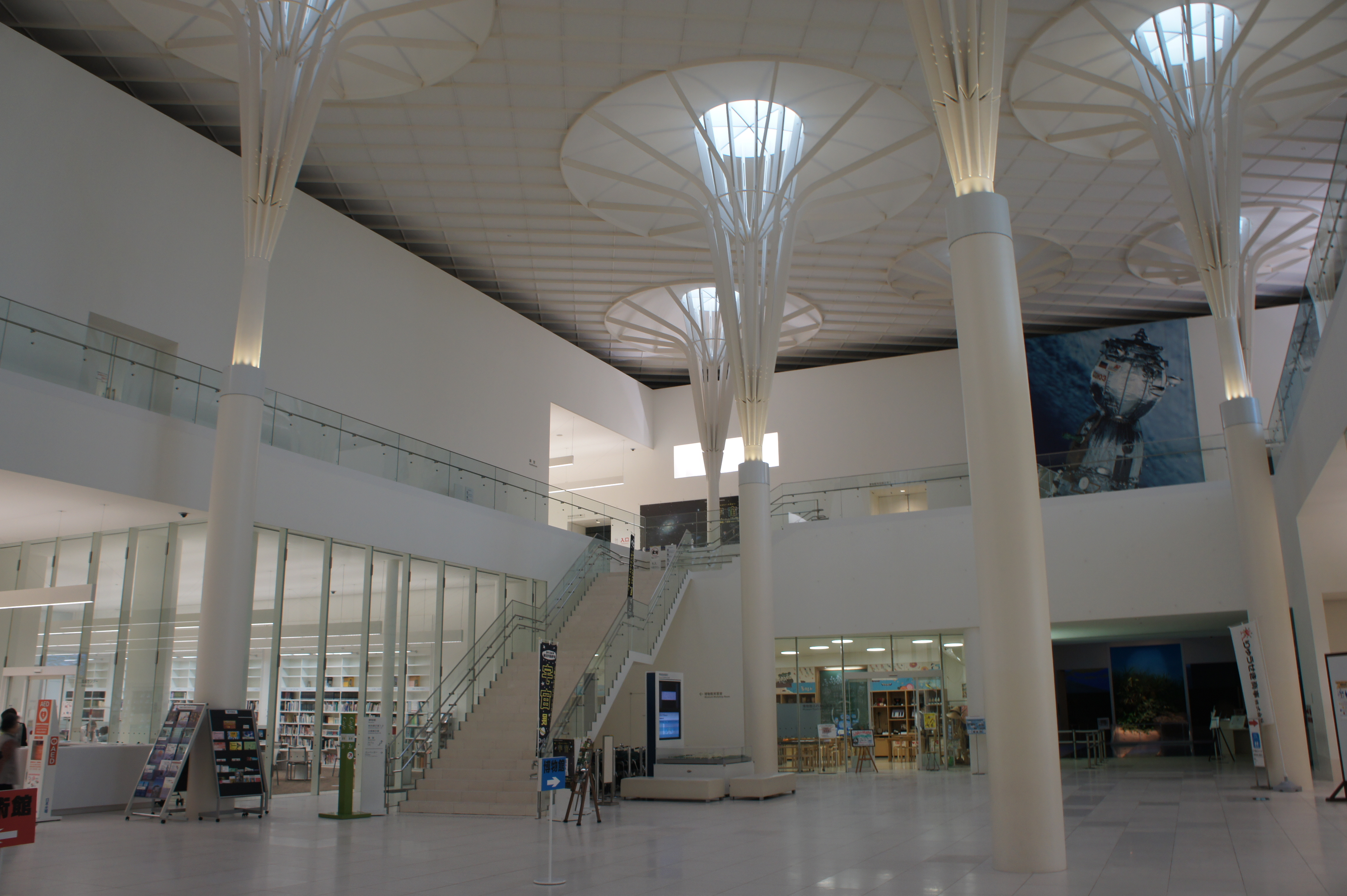 Okinawa Prefectural Museum & Art Museum, 3-1-1 Omoromachi, Naha City, Okinawa.